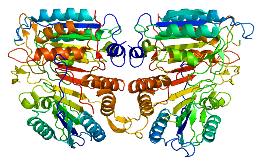 Structure of the CASP9 protein. Based on PyMOL rendering of PDB 1jxq.